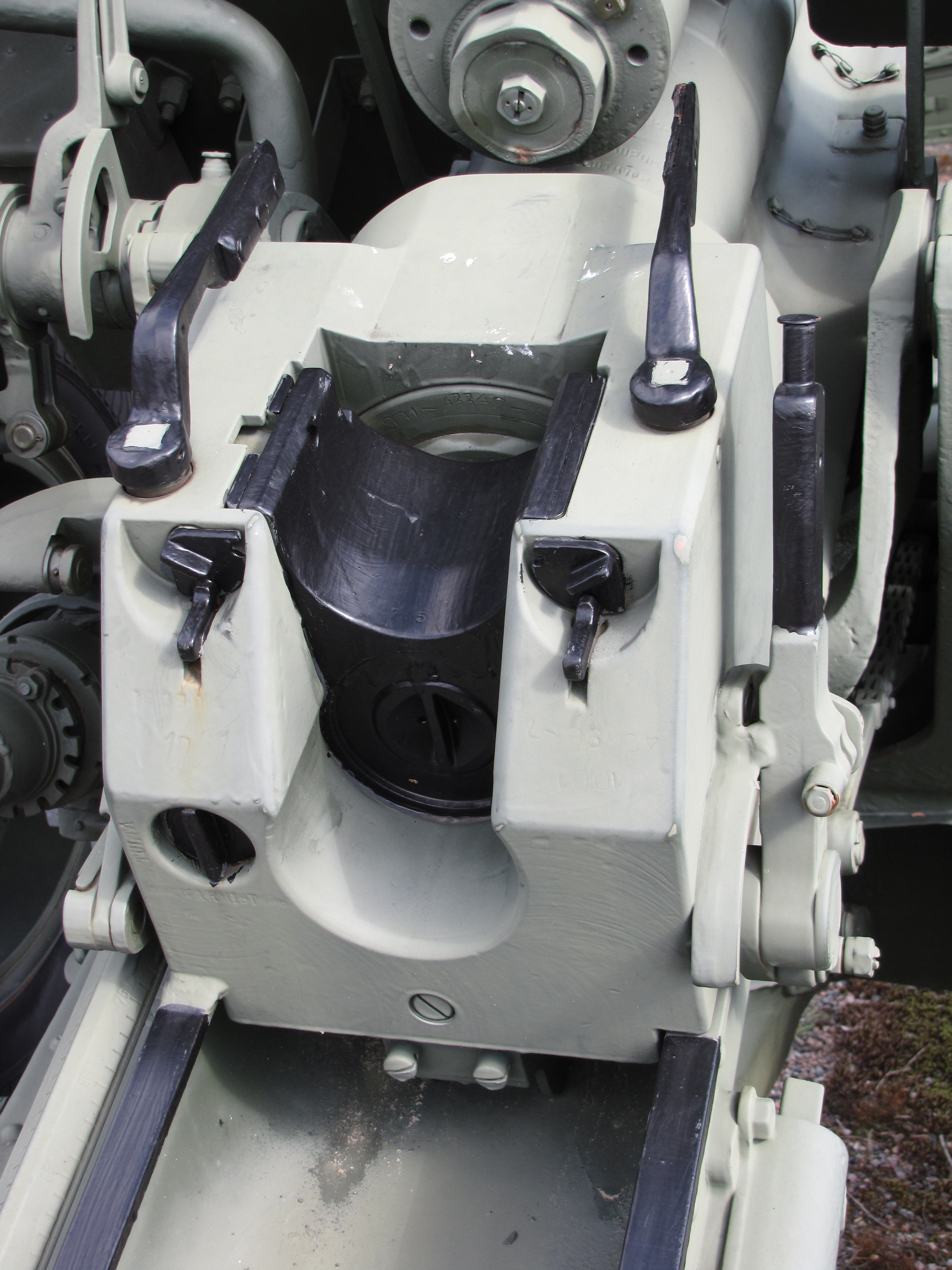 Soviet 76 mm divisional gun M1939 (USV) breech. Gun number 765/41, manufactured by The Barrykady Gun Factory 221 in 1941. Photographed in Hämeenlinna artillery museum.